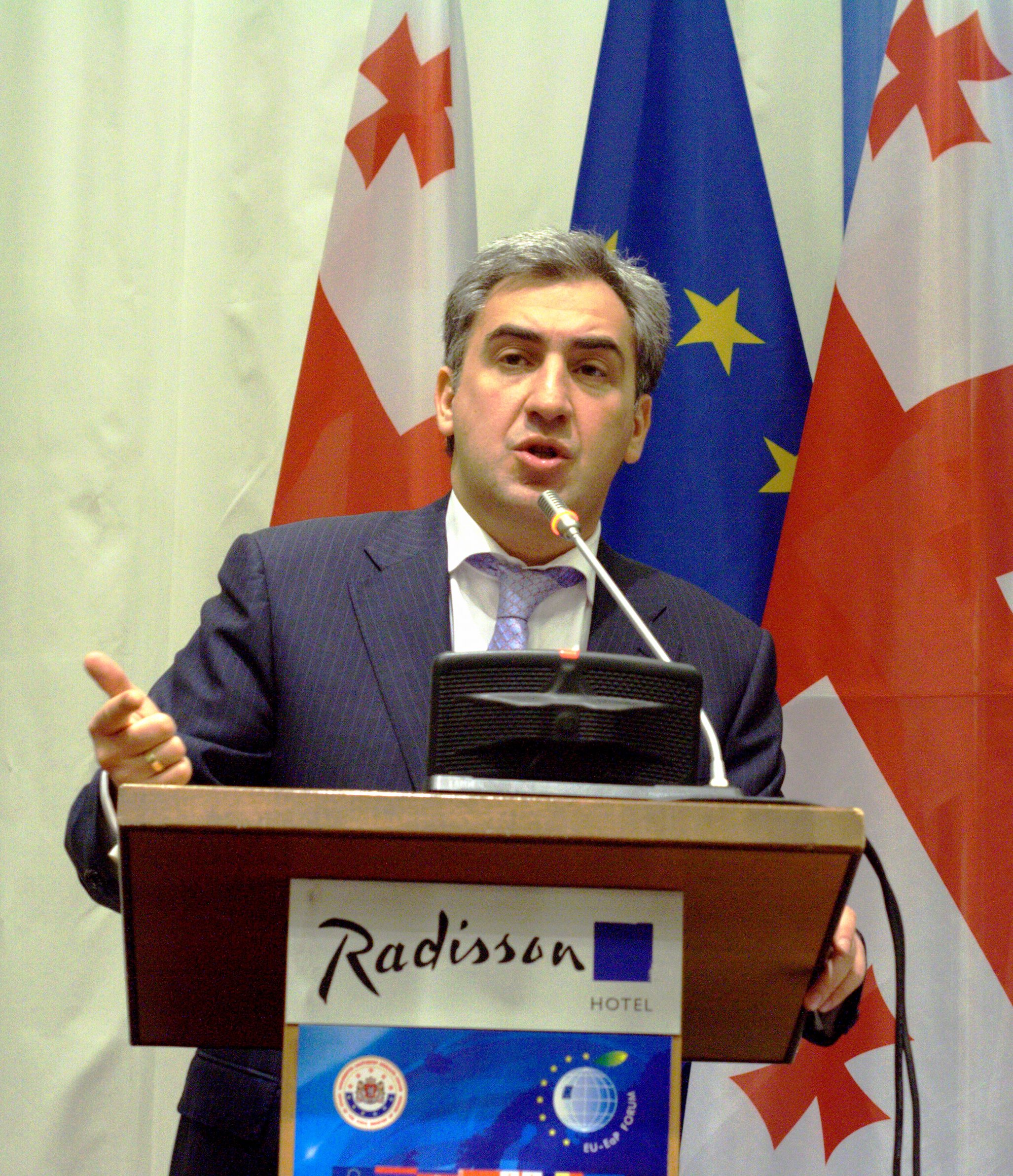 Georgian PM Nika Gilauri at the 1st EU–Eastern Partnership forum. Tbilisi, 22-24 March 2012. Photo by Anna Woźniak.